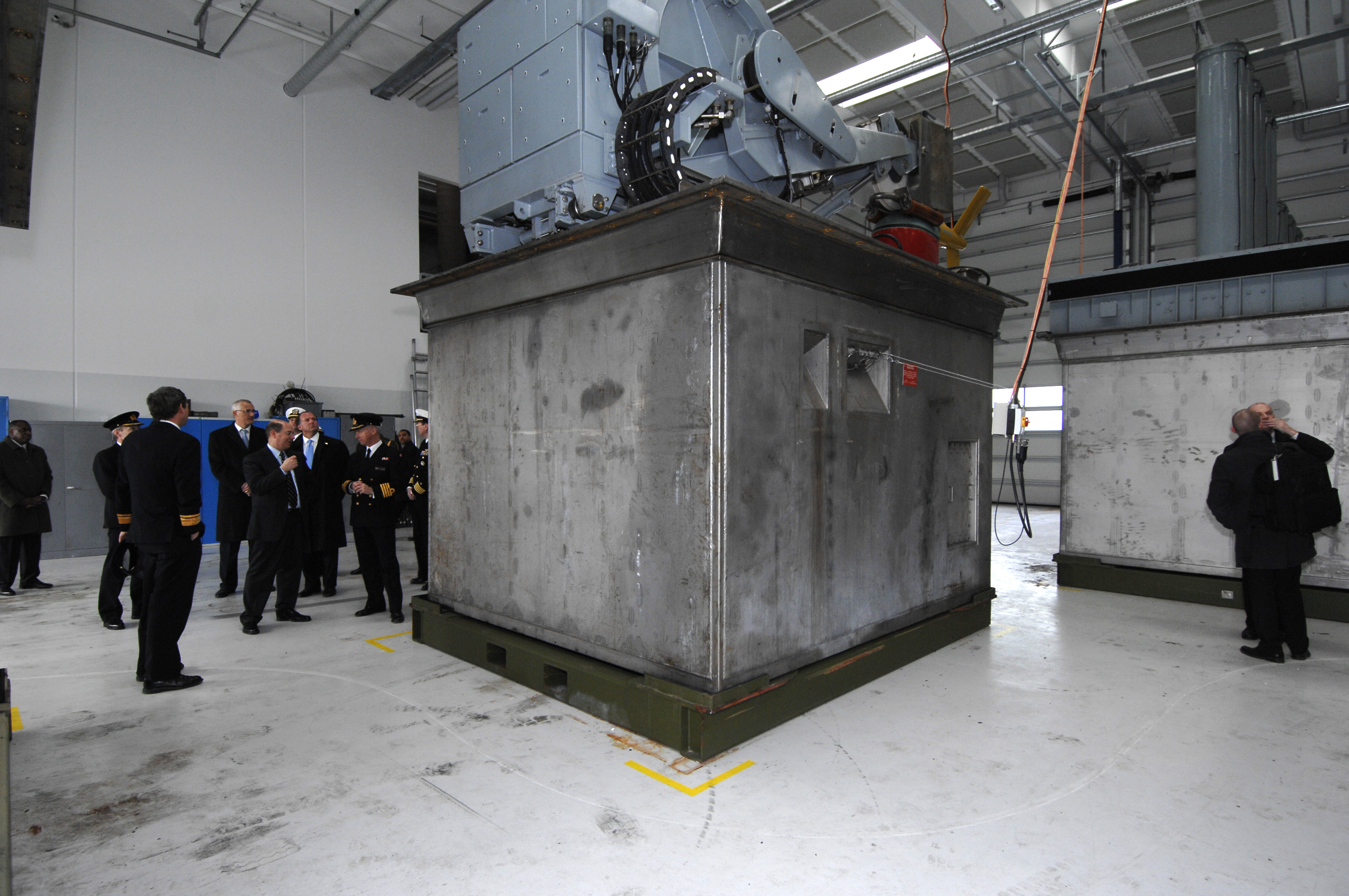 Naval Base Korsoer, Denmark (Feb 20, 2007) - Secretary of the Navy (SECNAV), the Honorable Donald C. Winter receives a brief on the concept of operations of an anti-mine warfare module. SECNAV was in Denmark to get a first-hand look at how foreign shipyards design and produce Naval warships. U.S. Navy photo by Chief Mass Communication Specialist Shawn P. Eklund (RELEASED)